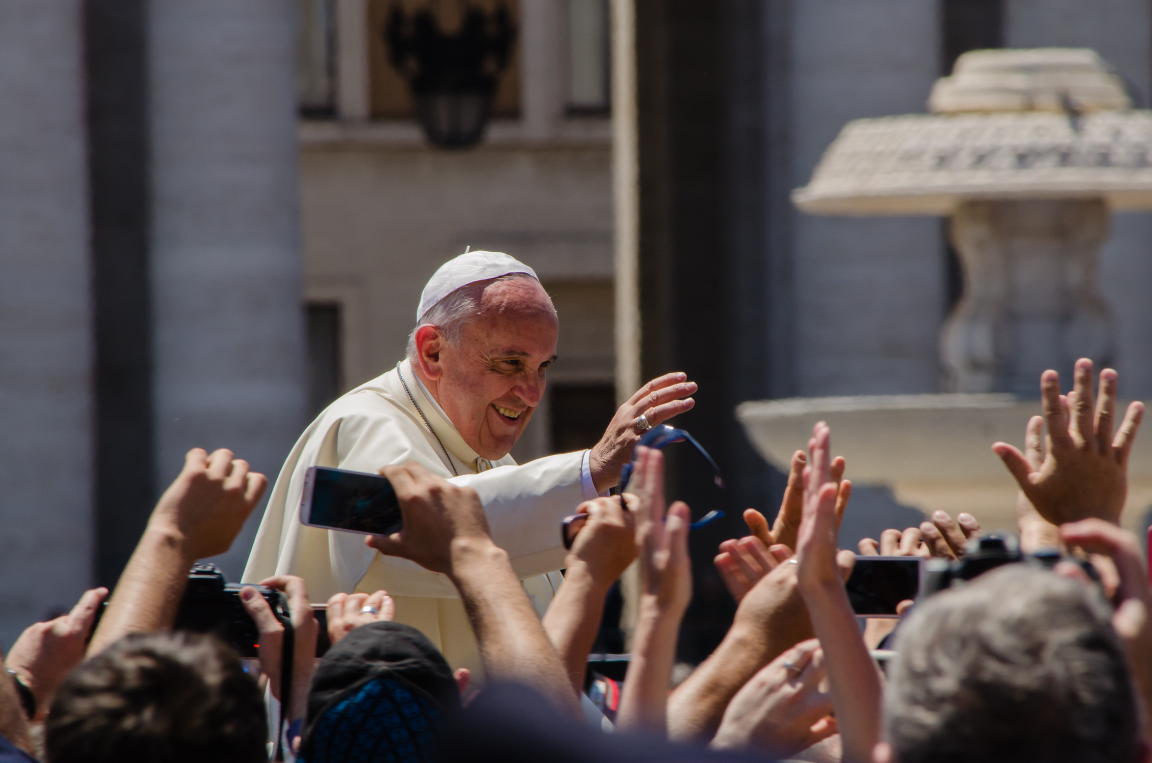 Pope Francis in St Peter's square - Vatican